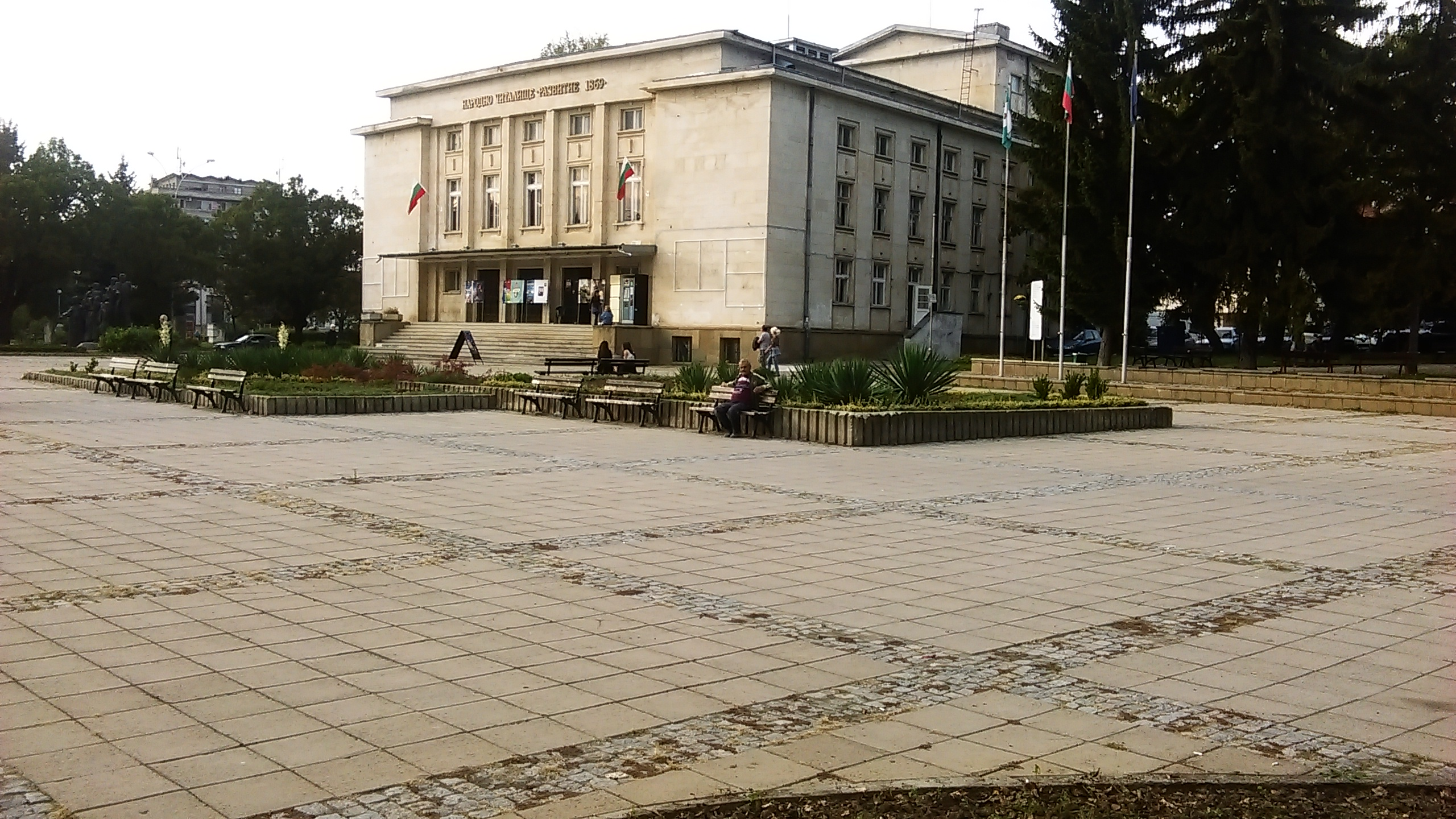 Площад "Възраждане" и Читалище "Развитие" - Разград